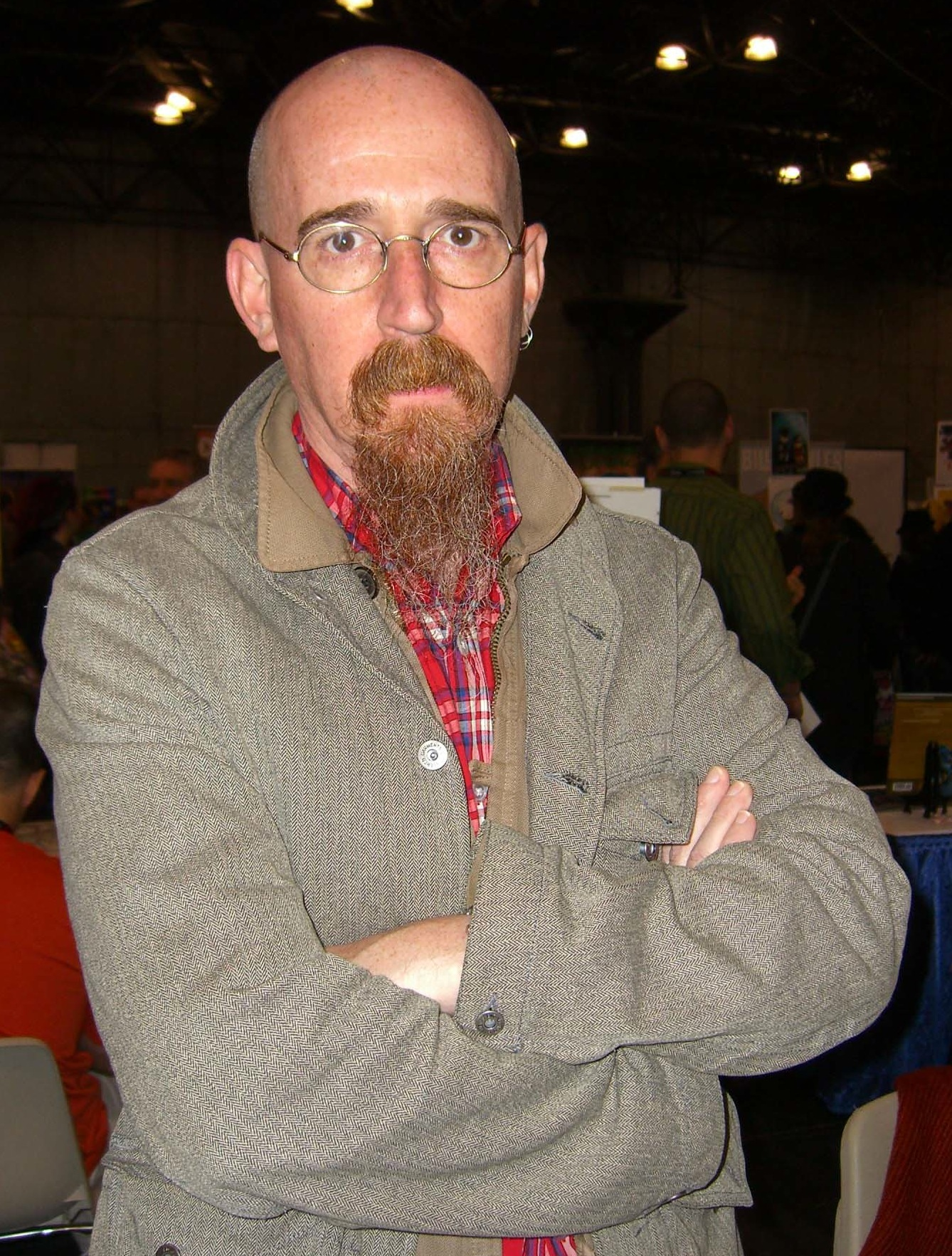 Comics creator Brian Azzarello at the New York Comic Con, October 15, 2011. This photo was created by Luigi Novi. It is not in the public domain, and use of this file outside of the licensing terms is a copyright violation.